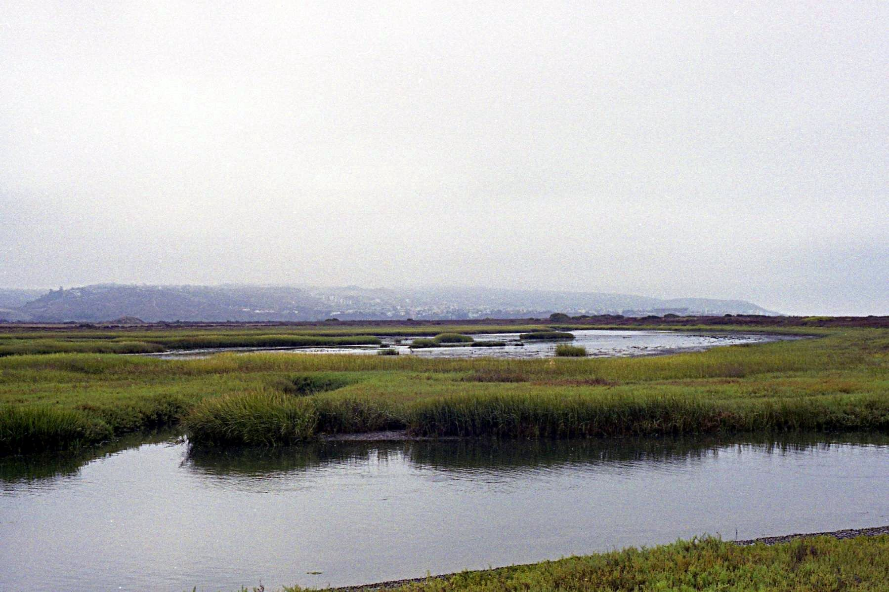 The Tijuana River Estuary — an estuary and wetlands at the mouth of the Tijuana River at the Pacific Ocean. Located in the San Diego–Tijuana region of San Diego County, California (U.S.) and Tijuana, Baja California state (Mexico). The Tijuana River National Estuarine Research Reserve and Tijuana Slough National Wildlife Refuge are located here. A National Natural Landmark of the United States.